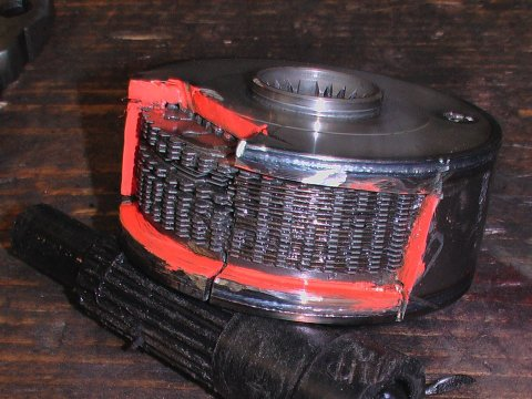 Andy Rusho, from my site